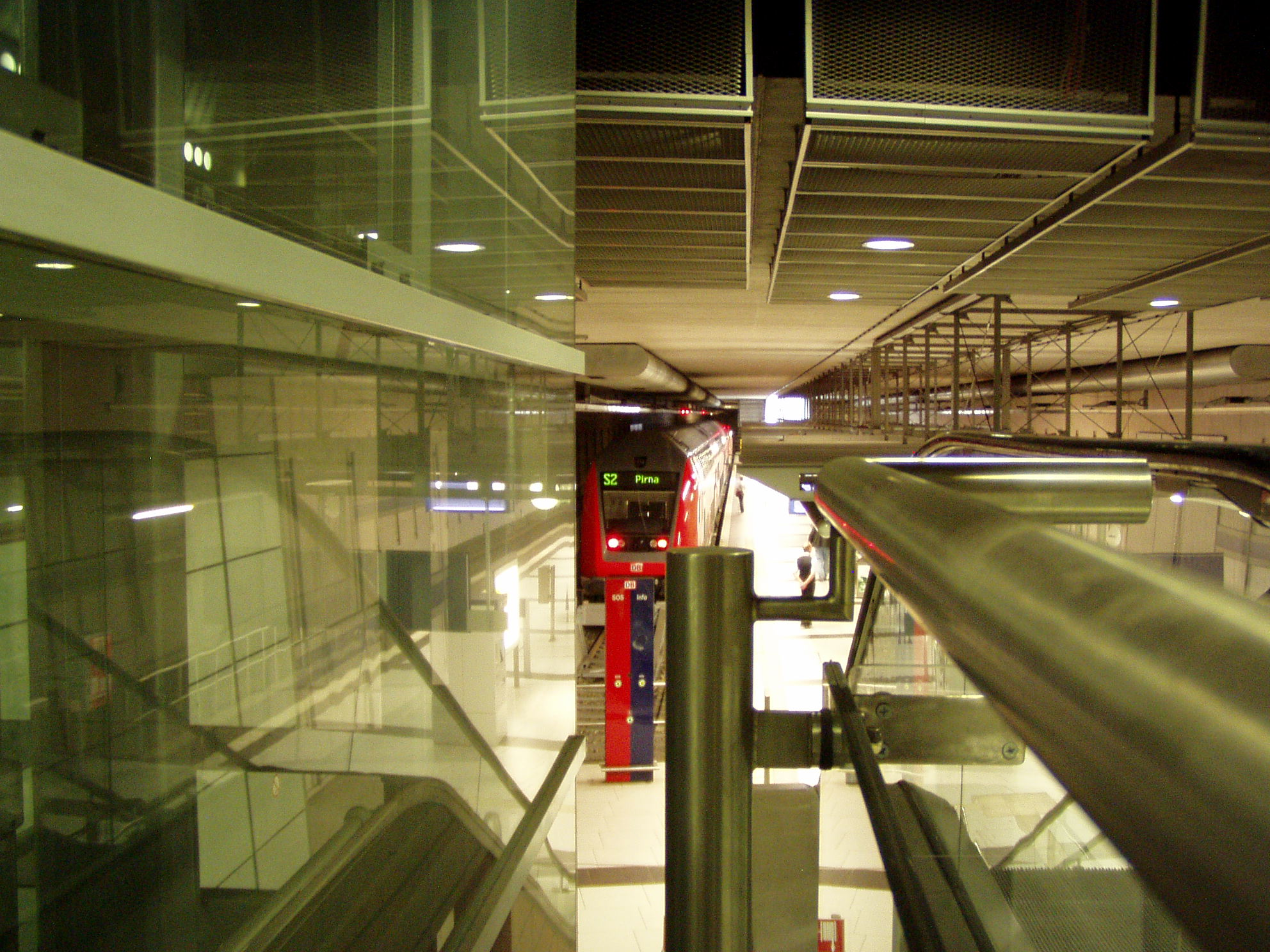 Terminus of the S-Bahn S2 at Dresden Airport